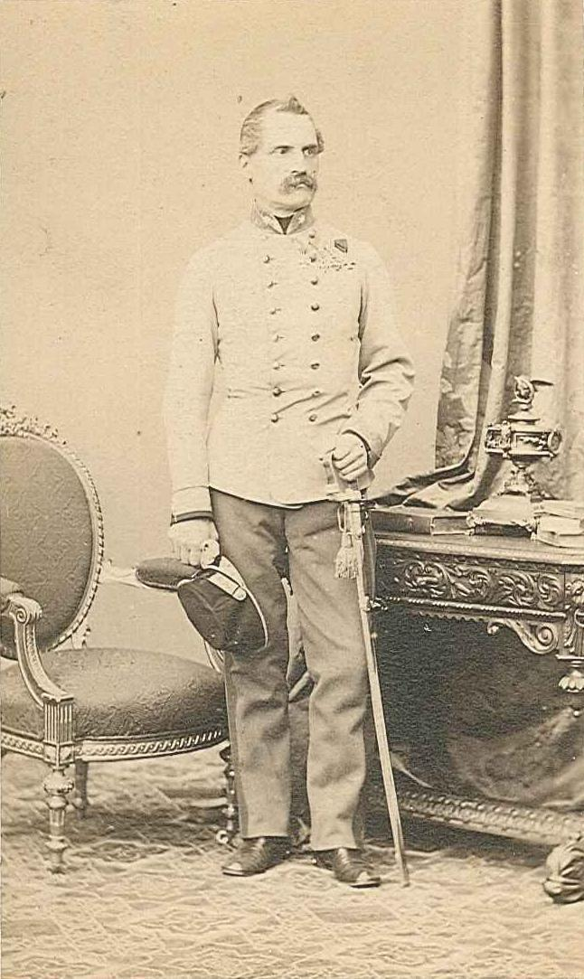 Leopold Count Gondrecourt, teacher of Corown Prince Rudolf of Austrie